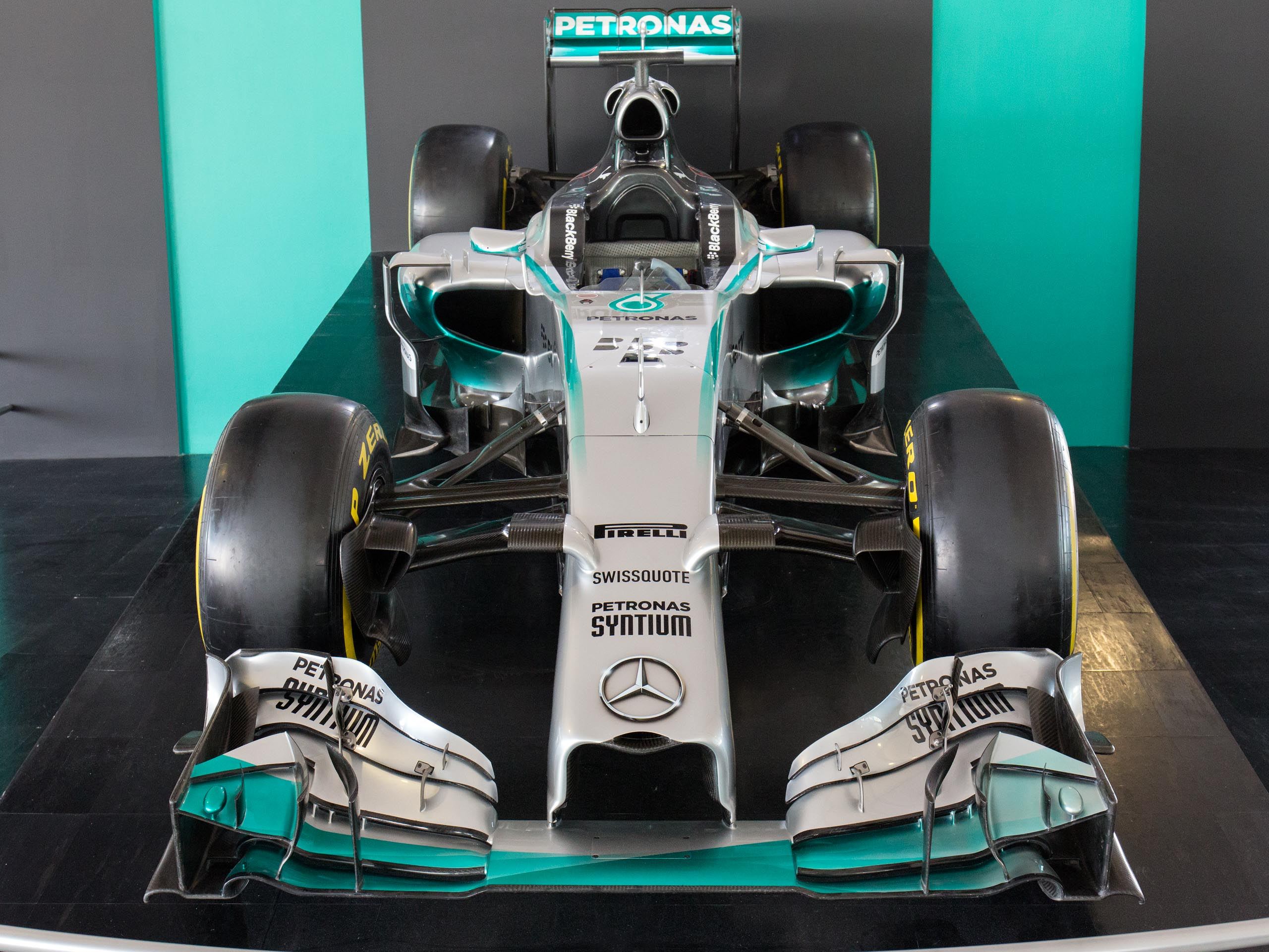 Formula One 2015 Rd.2 Malaysian GP: Mercedes F1 W05 Hybrid